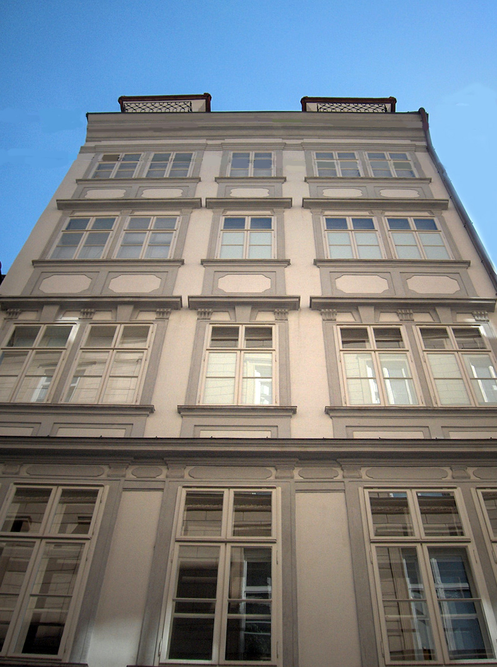 Mozart house in Vienna, Austria (1784-87). Here he composed the "Marriage of Figaro"